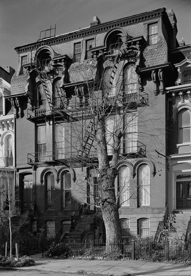 House of Blanche Bruce in Washington, D.C.